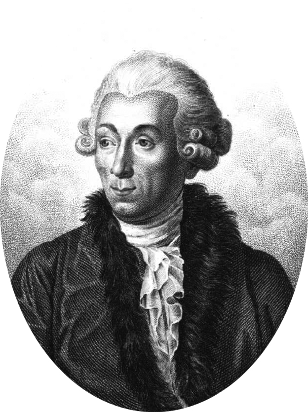 Jean Hermann (1738-1800), French physician and botanist Jean Hermann